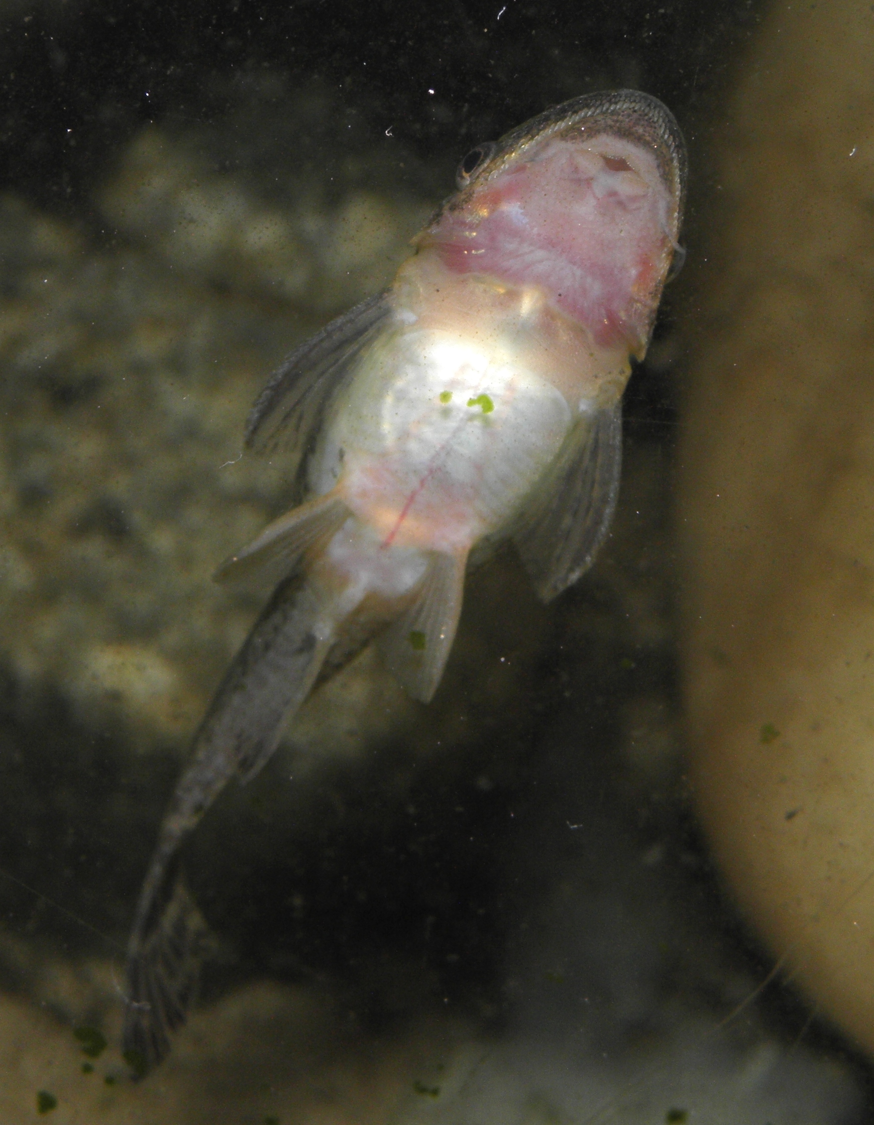 "Dwarf suckers" or "otos" (Otocinclus arnoldi).